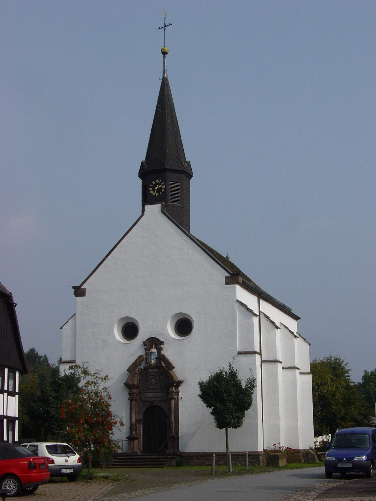 Catholic St. Joseph Church Blankenau, Beverungen (Germany)